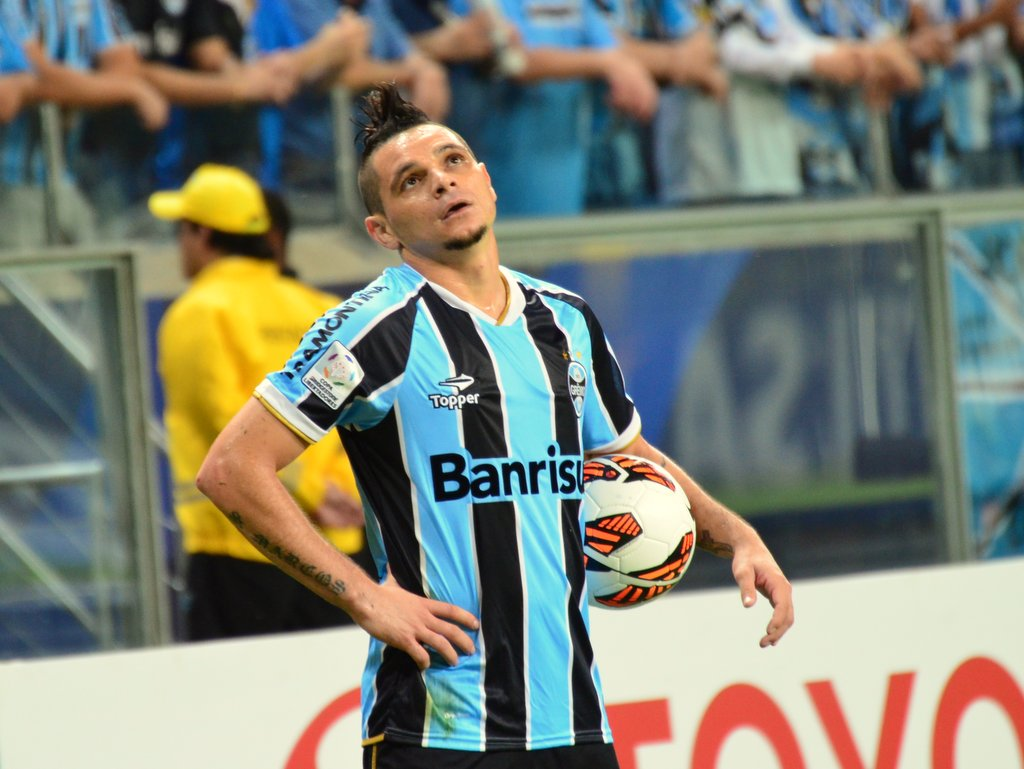 Jogador Pará, Grêmio FBPA em 2013.